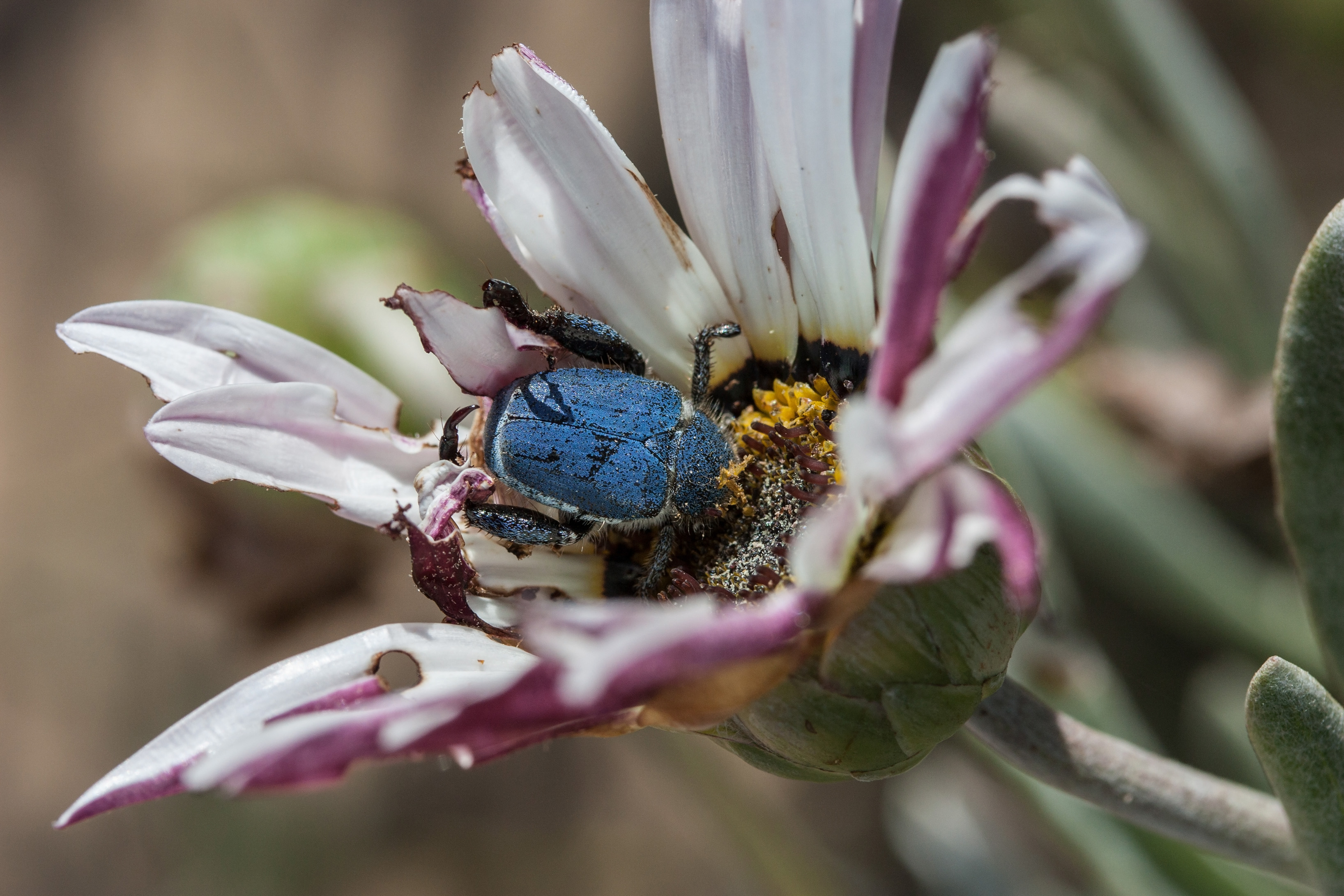 Scelophysa trimeni burrowing in the disc of a flower (Arctotis decurrens) while feeding. Photographed near Port Nolloth, Northern Cape, South Africa.